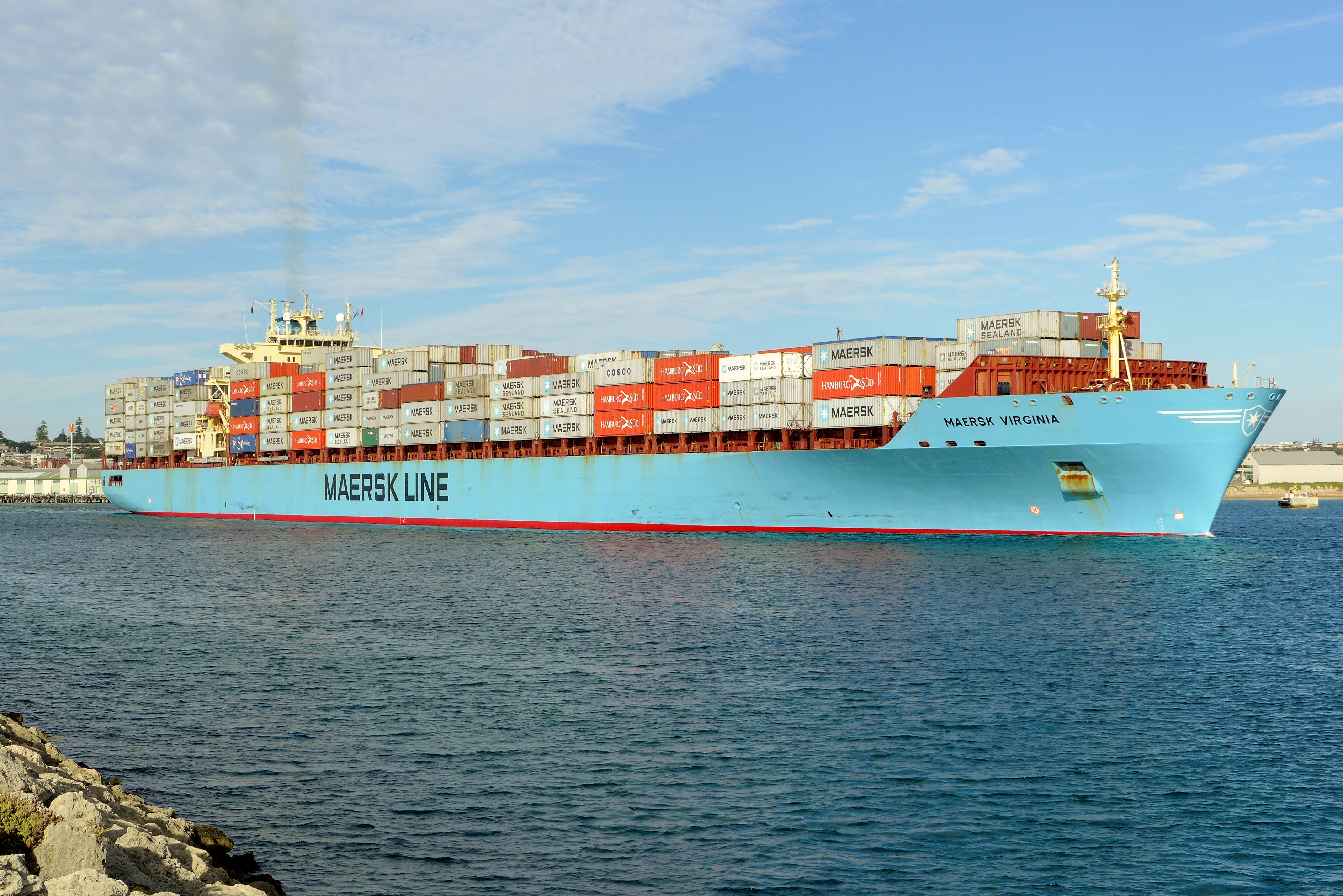 Container ship Maersk Virginia departing from Fremantle Harbour, Western Australia, on a voyage to Tanjung Pelepas, Johor, Malaysia.